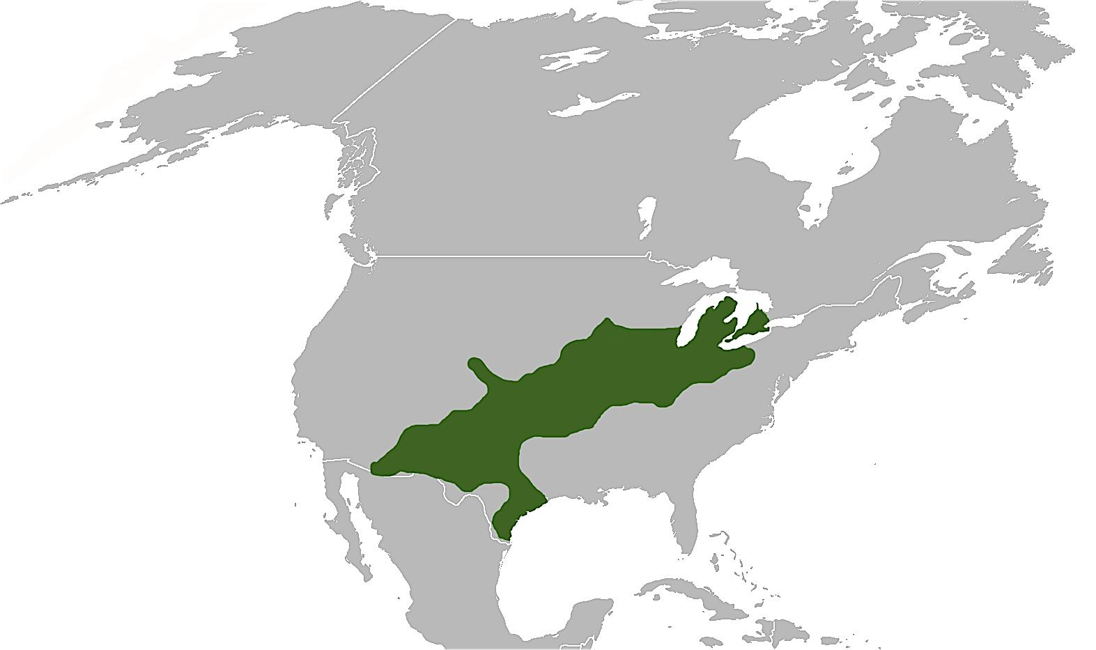 A map showing the distribution of the eastern massasauga .